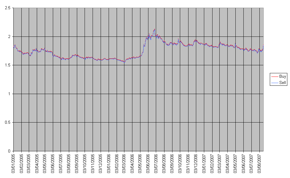 Graph of YTL against the EUR from the start of the YTL to present